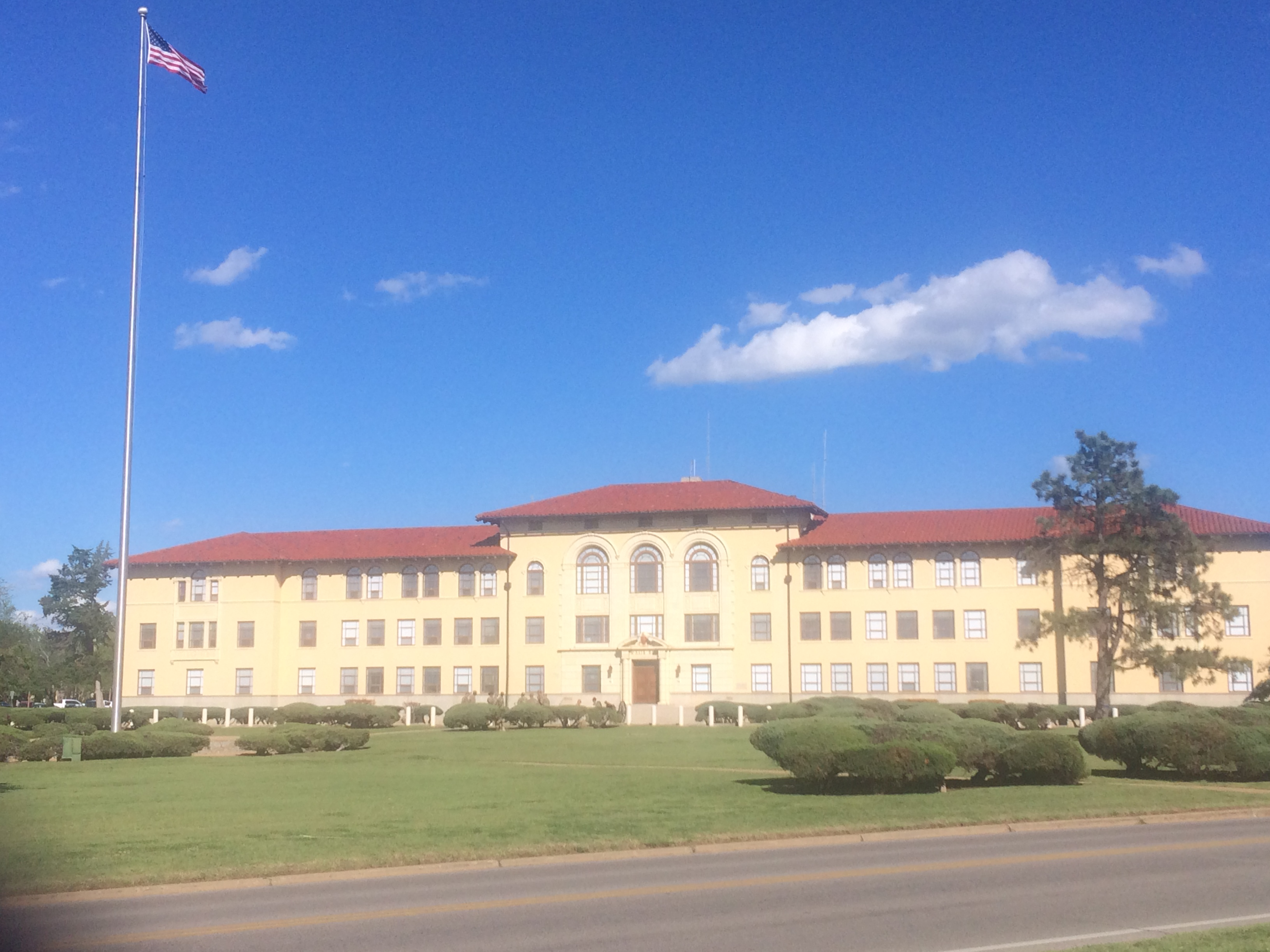 McNair Hall, headquarters of Fort Sill, Oklahoma.